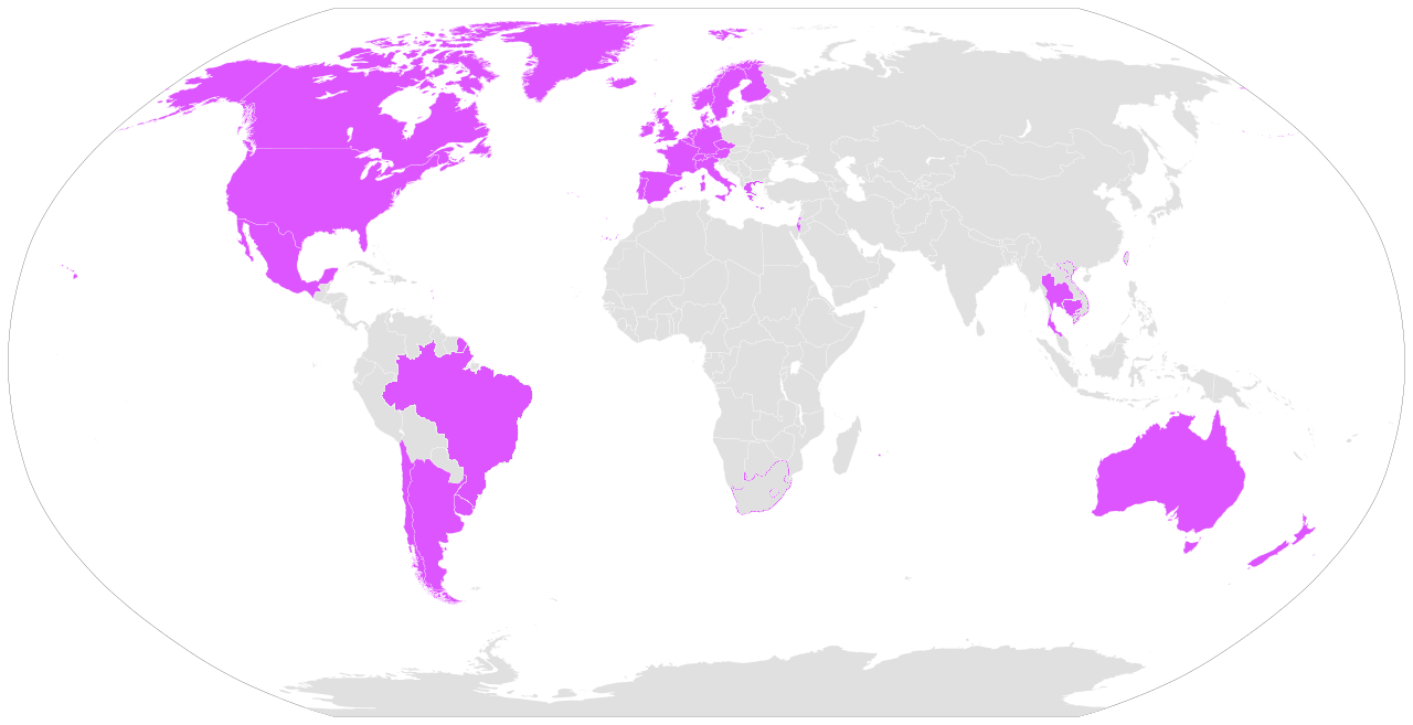 Countries where most people are favorable to Same-Sex Marriage